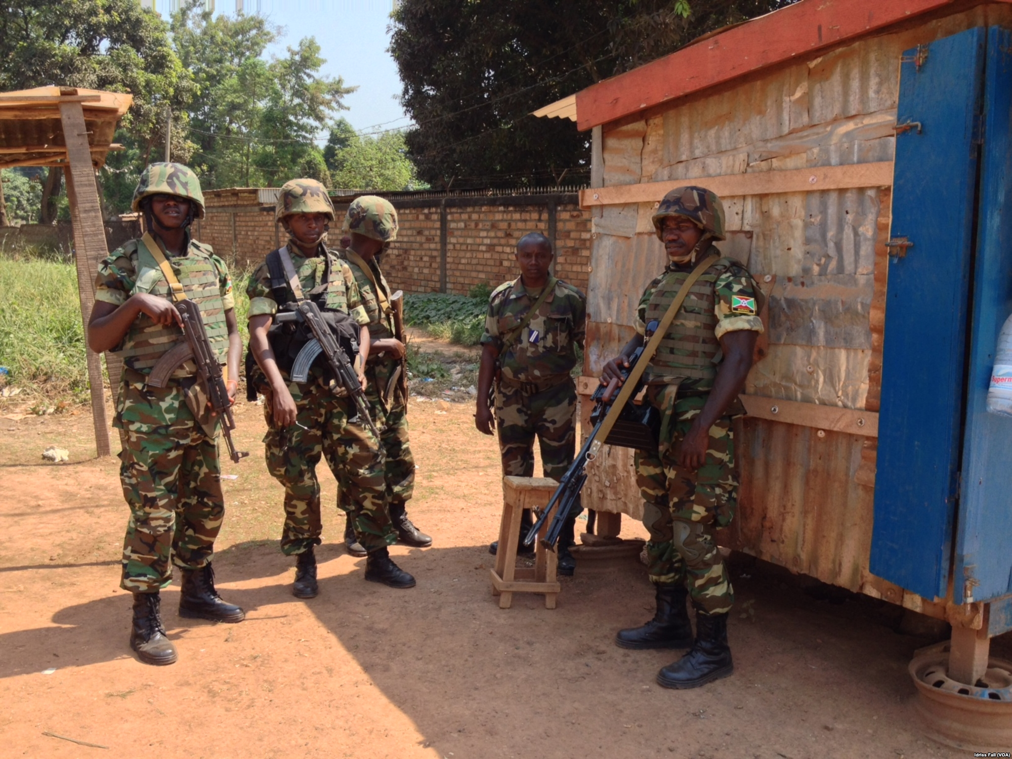 Burundi military personnel in the Central African Republic.